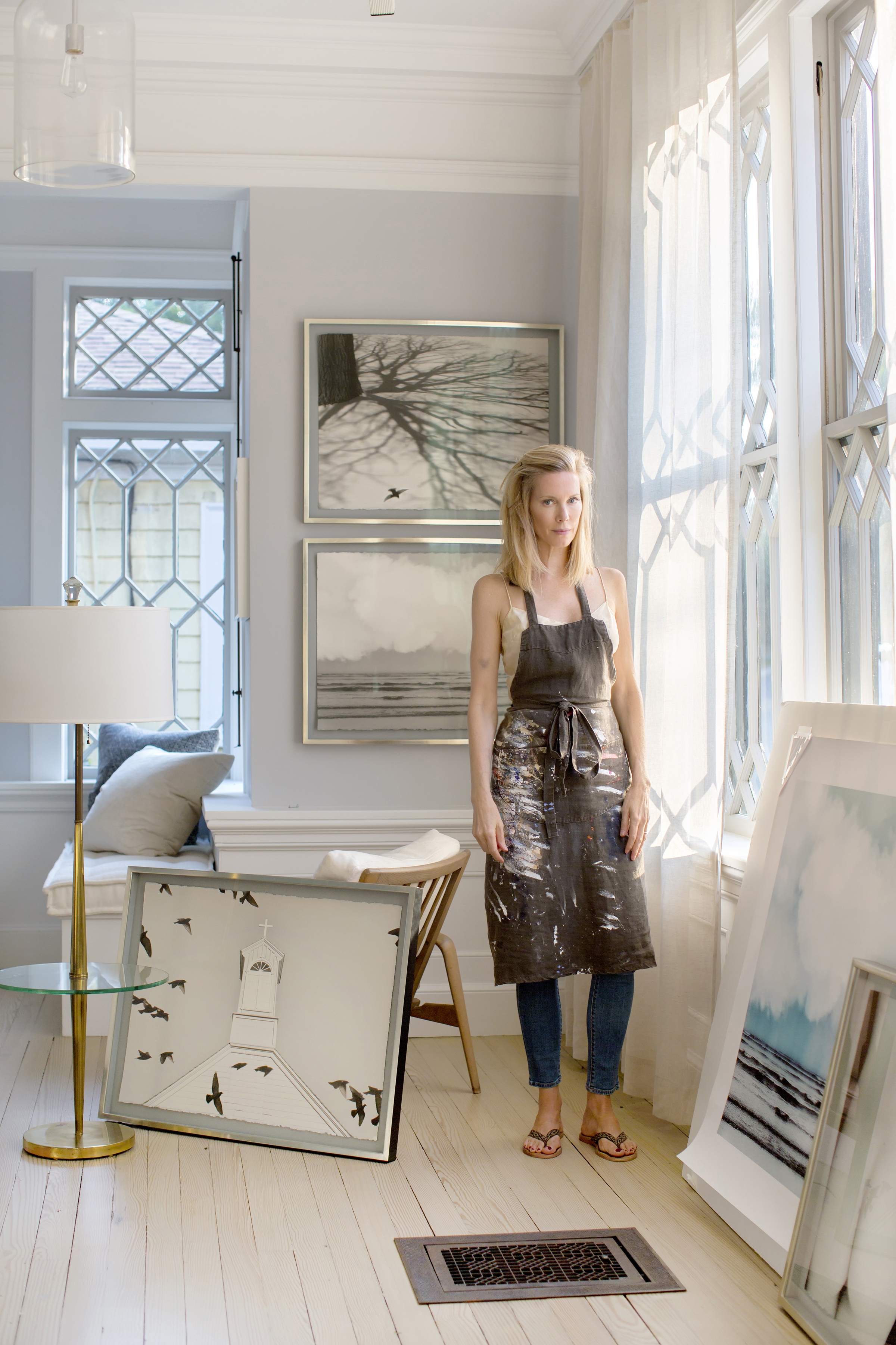 Photographer Kate Cordsen in her Essex, Connecticut studio